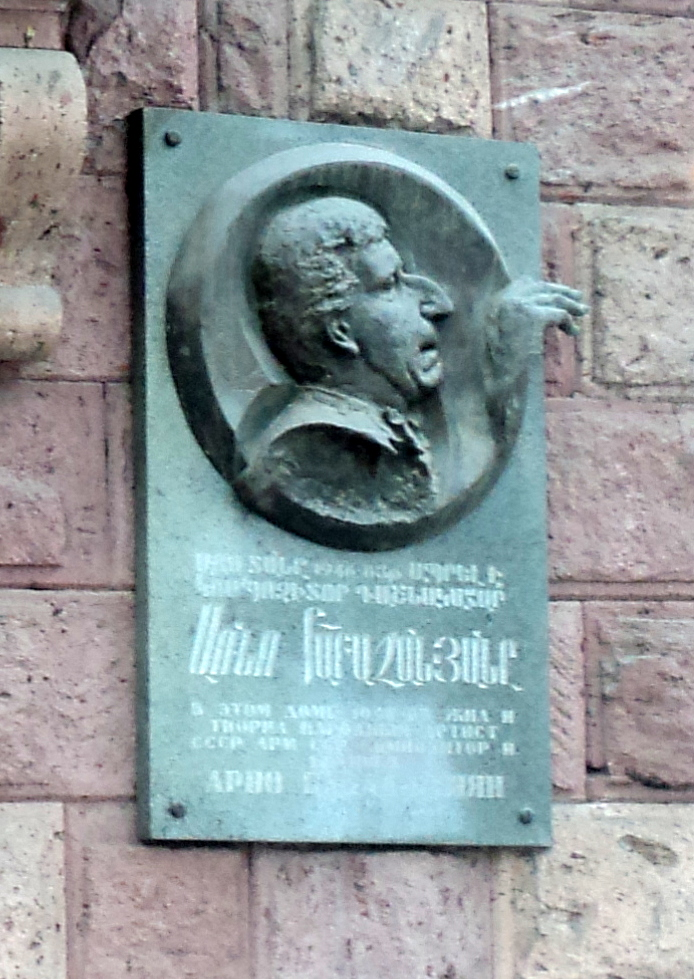 Arno Babajanyan's plaque, Yerevan